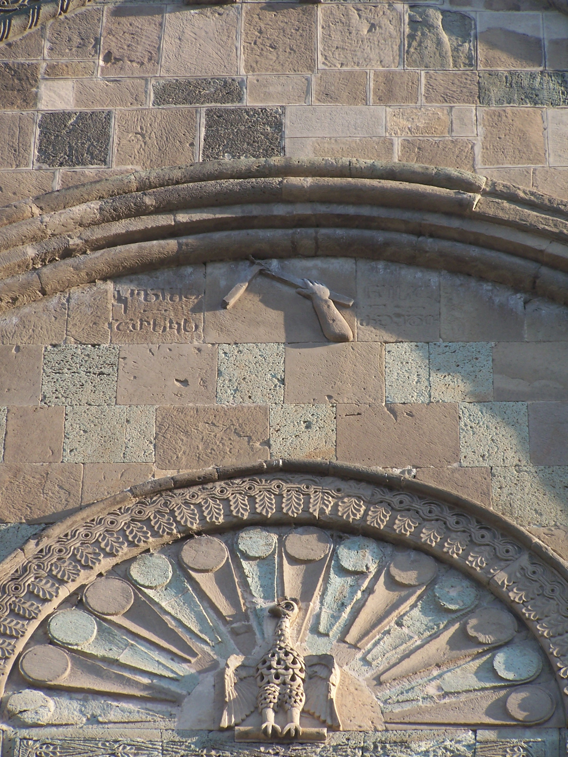 ...who had his arms severed by his jealous teacher.